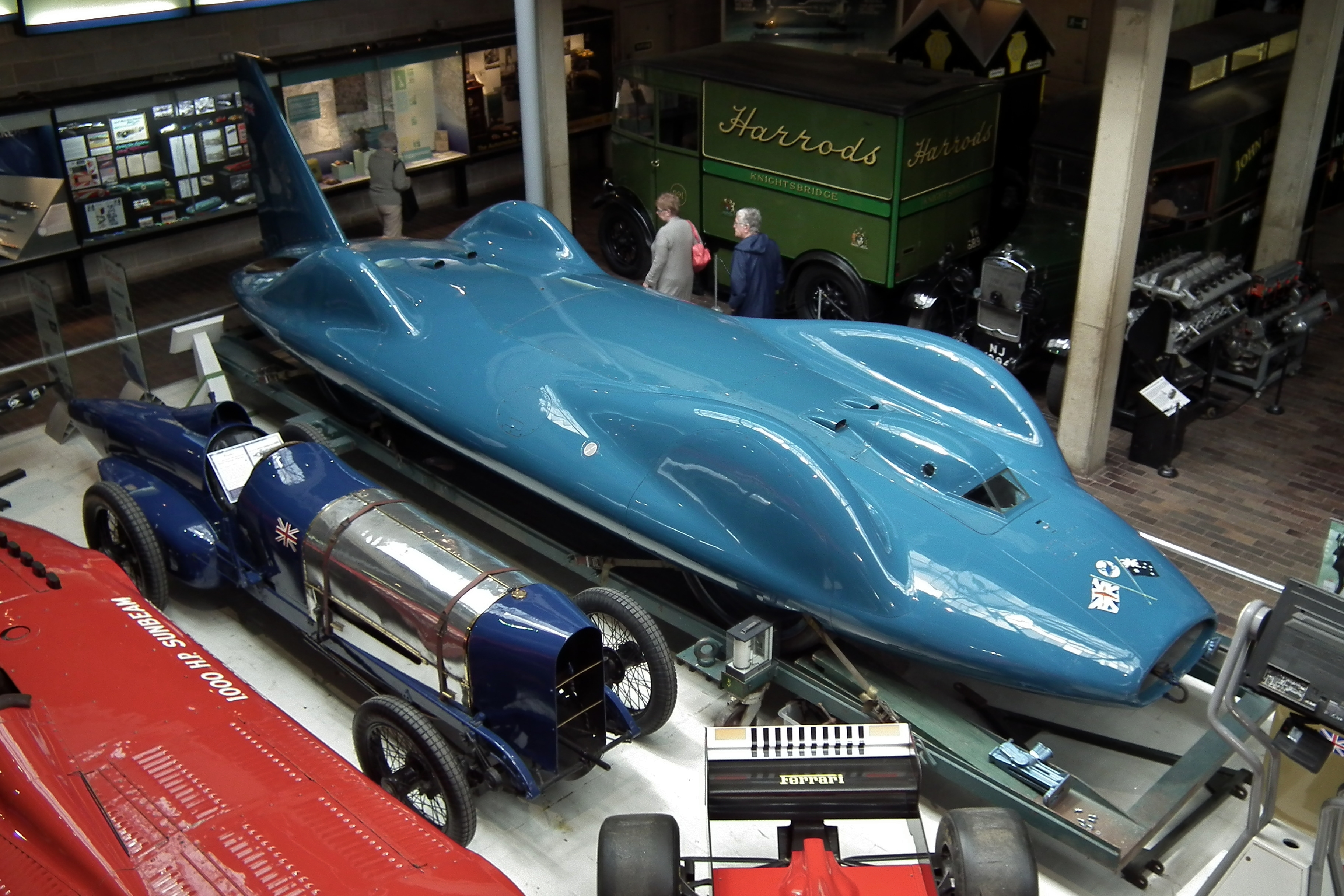 Blue Bird land speed record car. In 1964, Donald Campbell set the land speed record of 403.10 mph (648.783 km/h) driving this car. Taken at the National Motor Museum in Beaulieu, Hampshire, England.